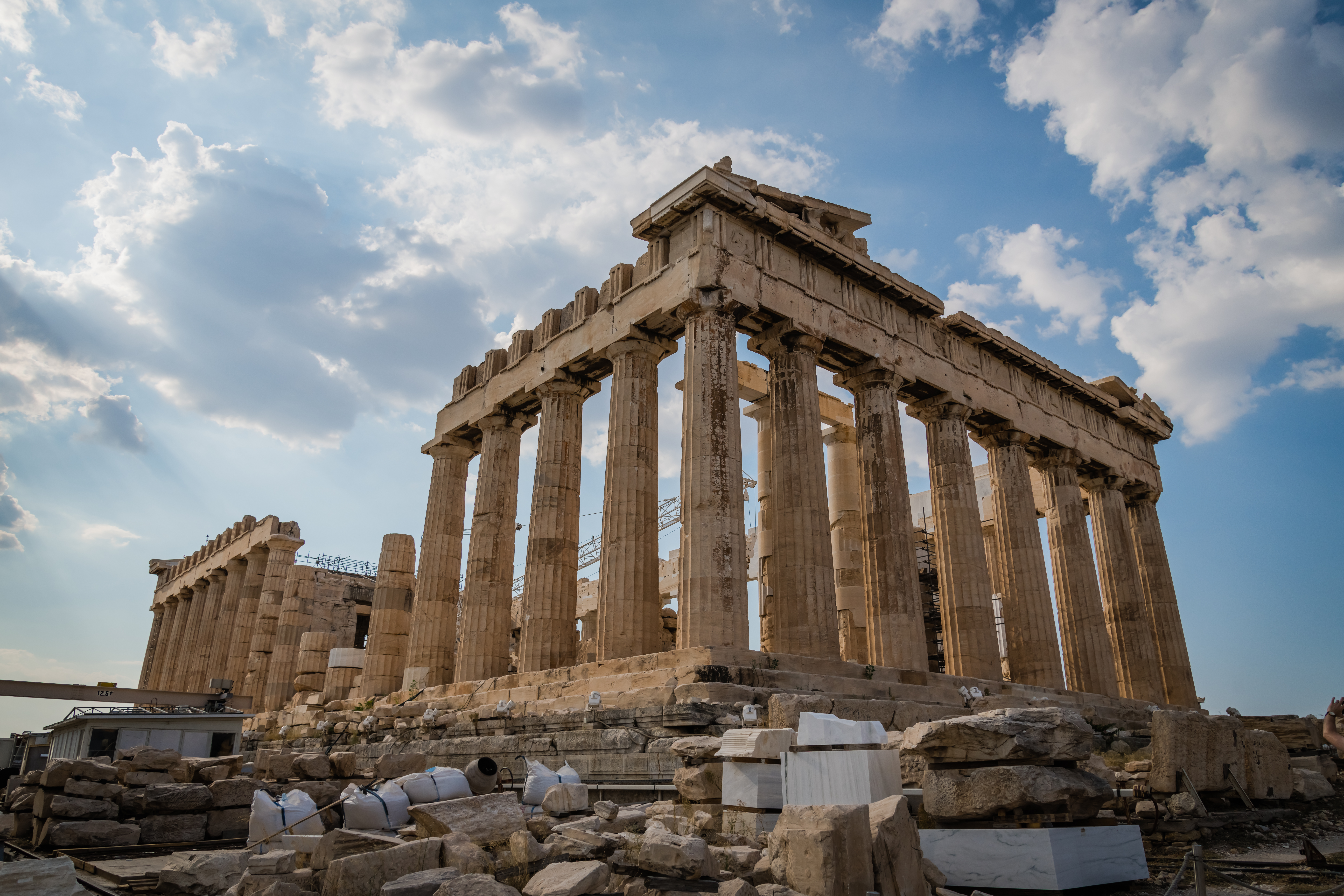 Parthenon